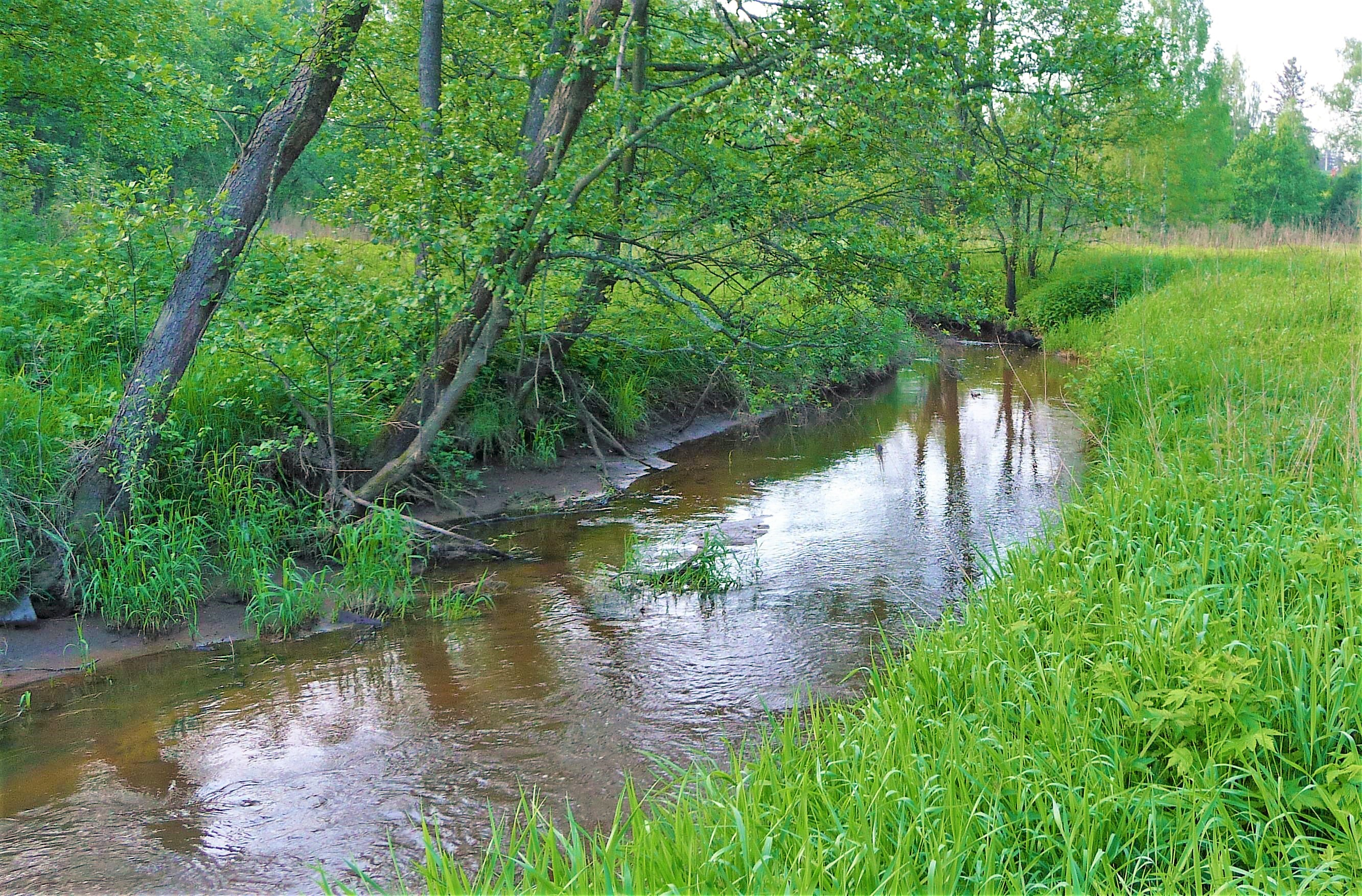 Pruzhenka River about Highway А107 (Small Moscow Ring, "Betonka")